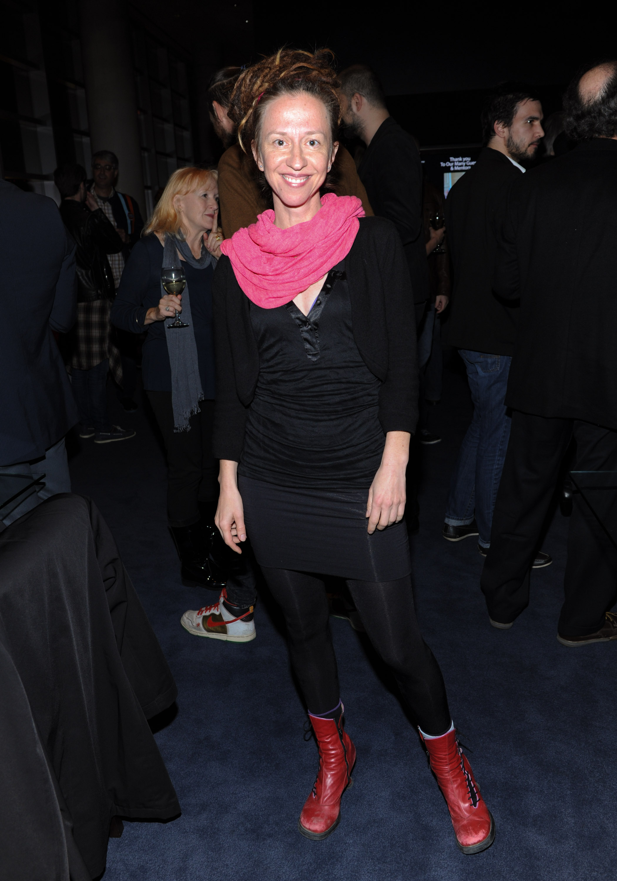 CFC alumna Ingrid Veninger at a reception for CFC's Slaight Music Residency. On September 30, CFC held an event at TIFF Bell Lightbox to showcase the talents of the outgoing residents of the Slaight Music Residency and to welcome the new participants of the program. For more information, please visit Photo by Sam Santos.